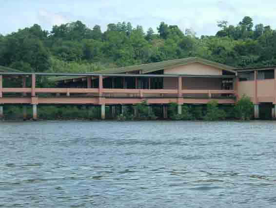 created by Cigkubrian